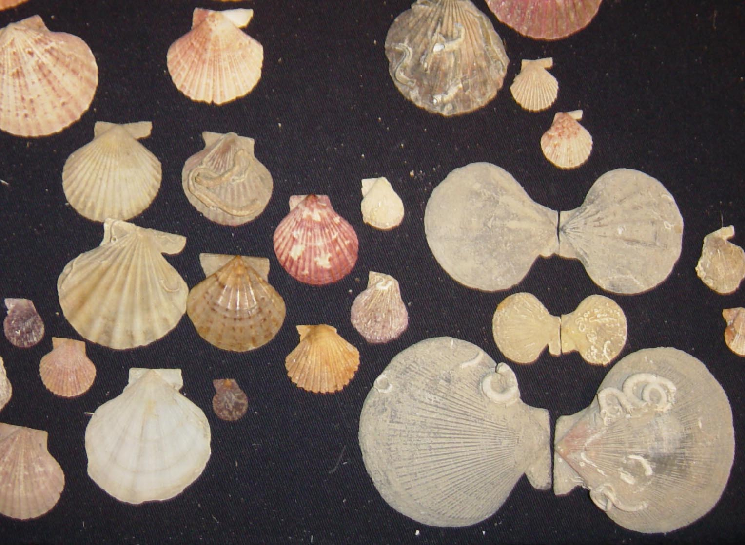 My own picture. A sample of Pectinindae from european Seas.